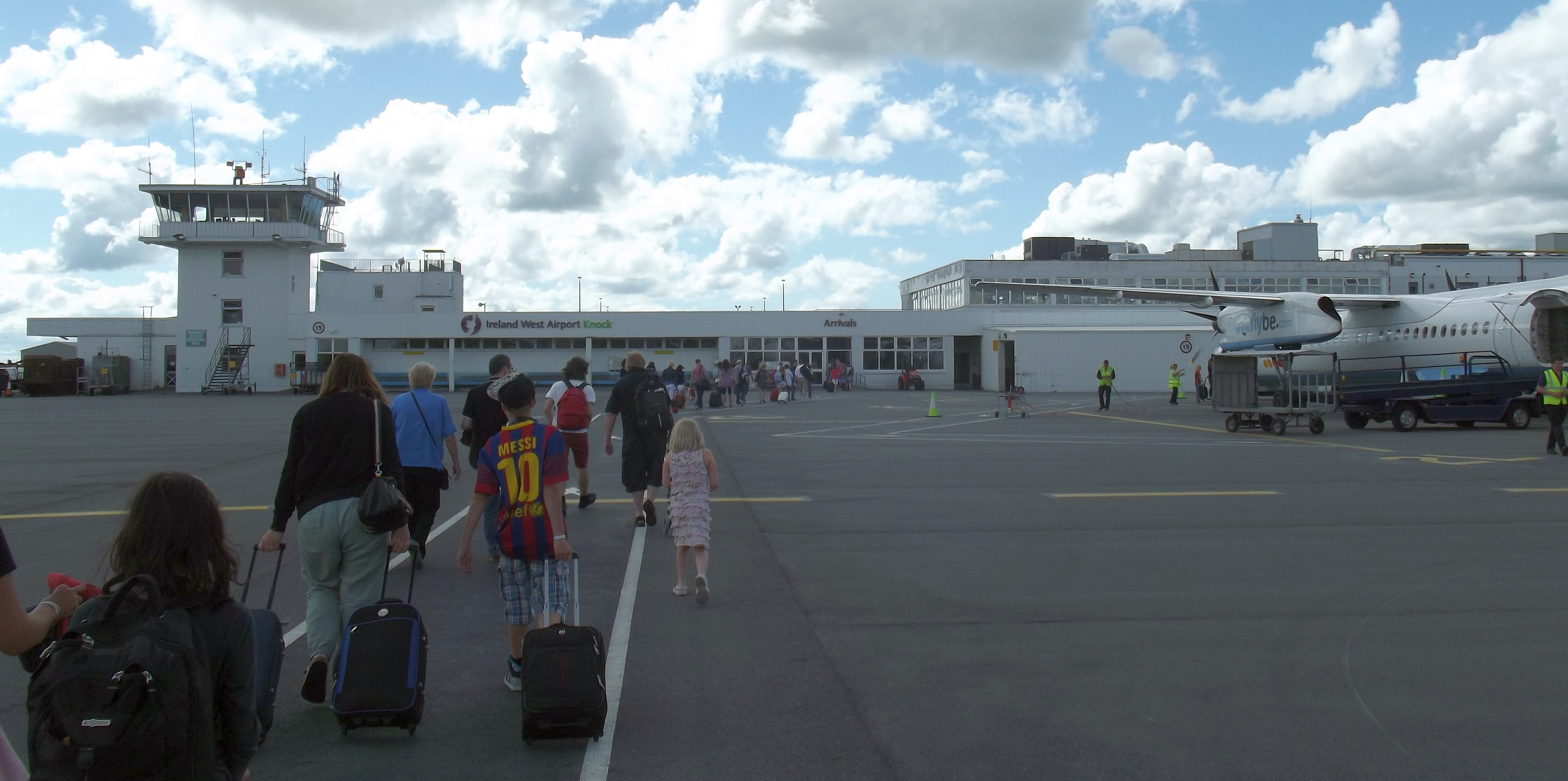 Ireland West Airport Knock in 2013